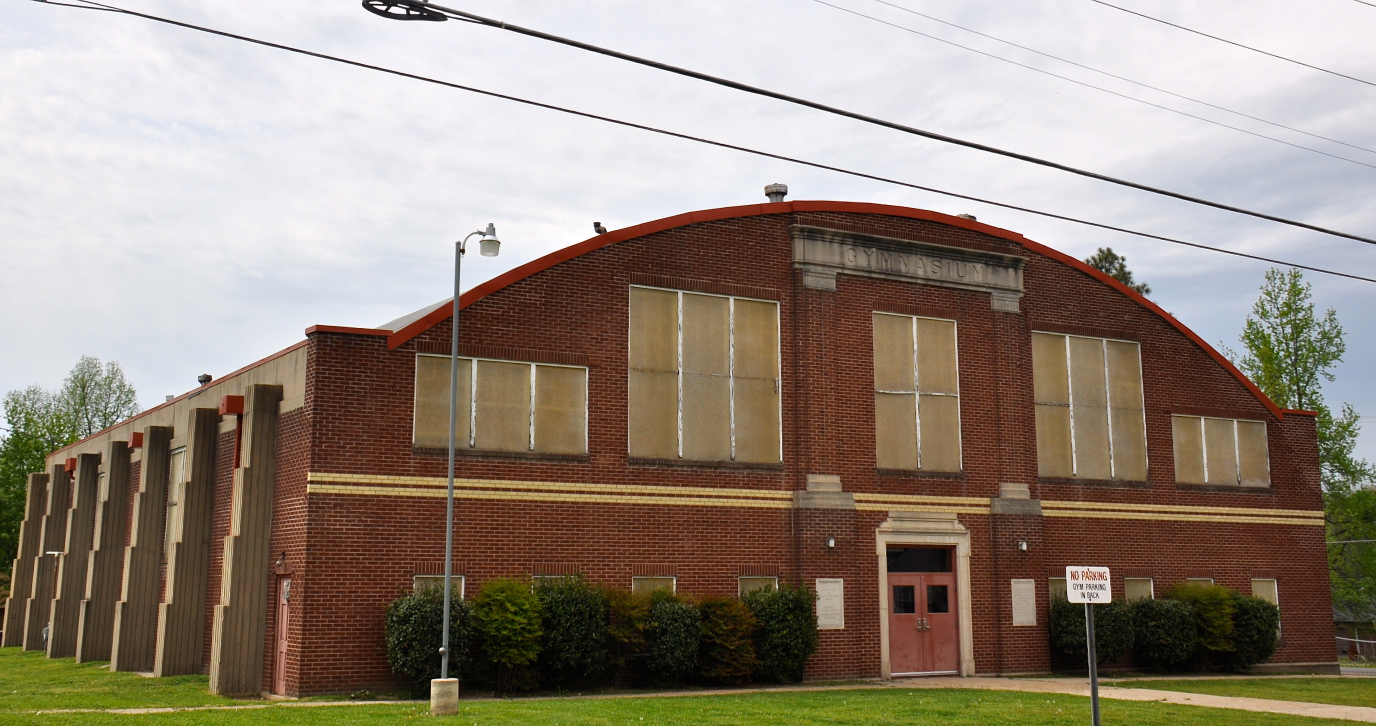 NRHP #01000839. Listed 8 August 2001.